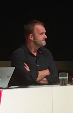 Sid Lowe at the Guardian's Football Weekly Live event in Manchester